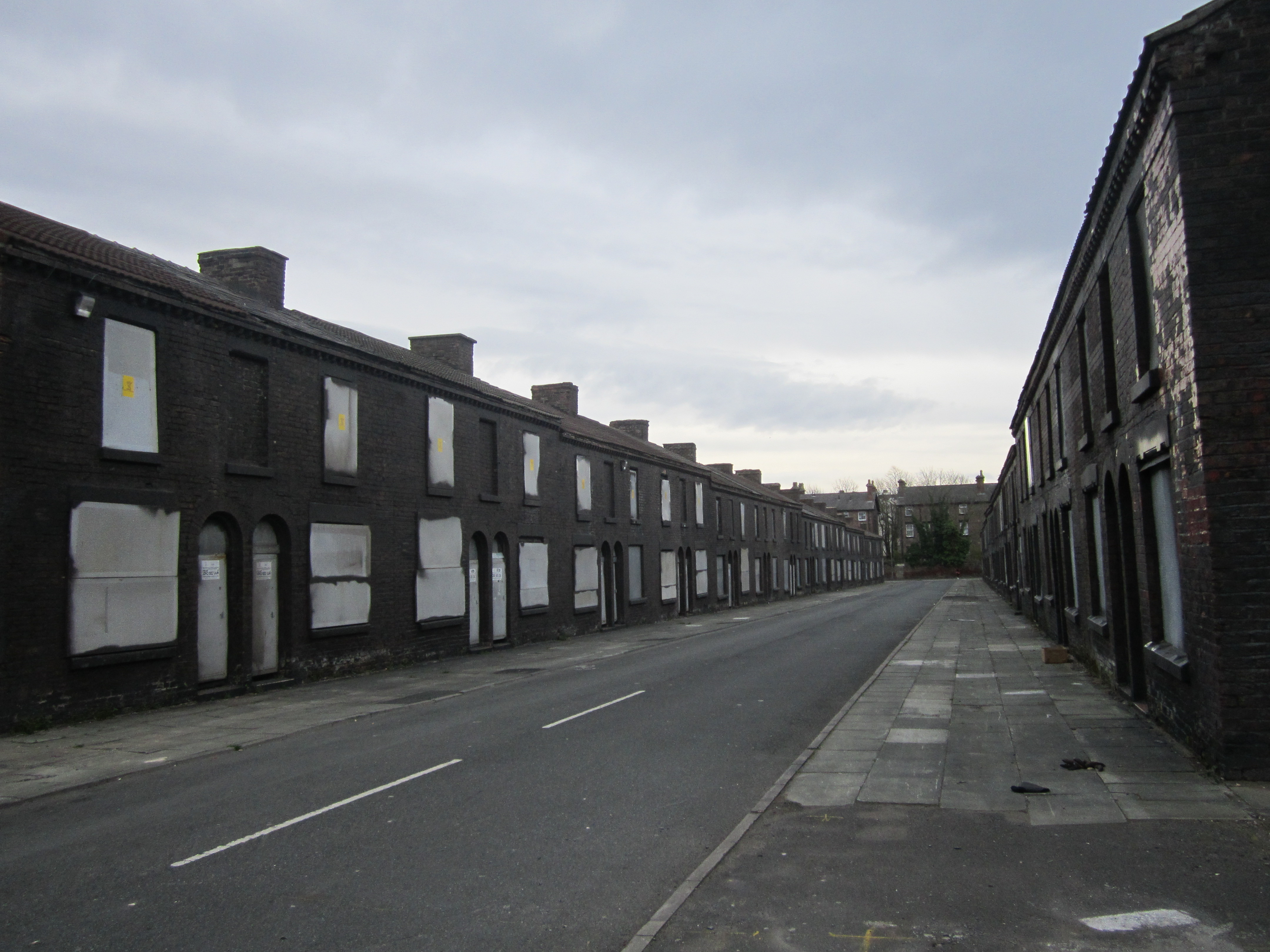 Photo taken at Toxteth, Liverpool, England.